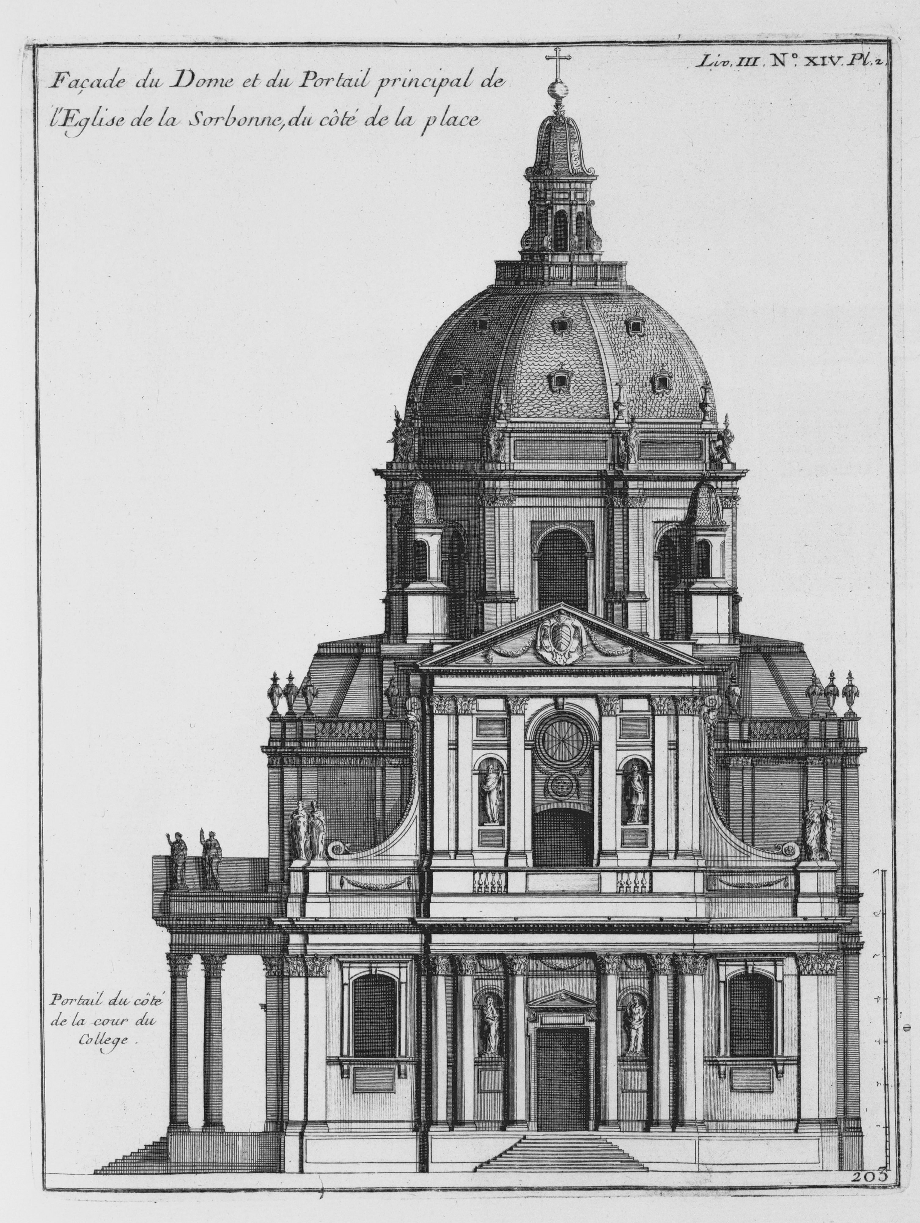 Elevation of the second chapel in the Sorbonne College, Paris, built to the designs of the architect Jacques Lemercier.